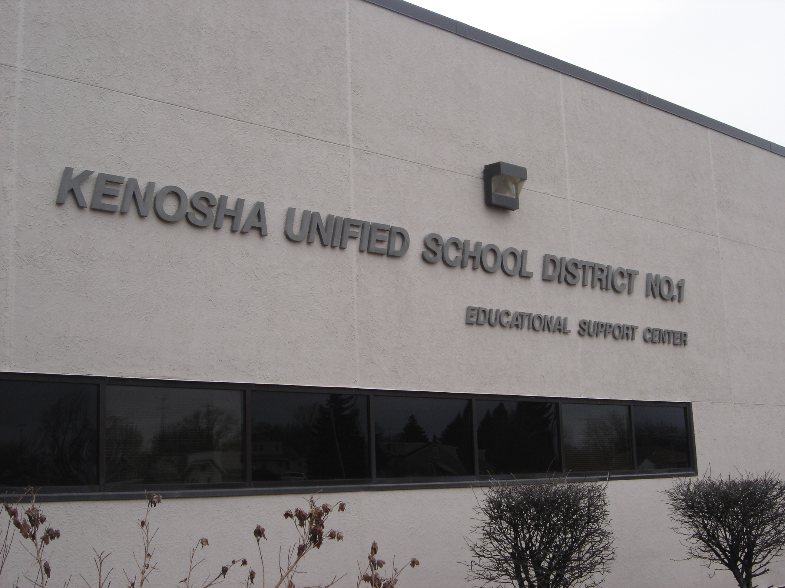 I took this picture when I was in downtown Kenosha. I, the creator of this work, hereby release it into the public domain. This applies worldwide.In case this is not legally possible, I grant any entity the right to use this work for any purpose, without any conditions, unless such conditions are required by law.